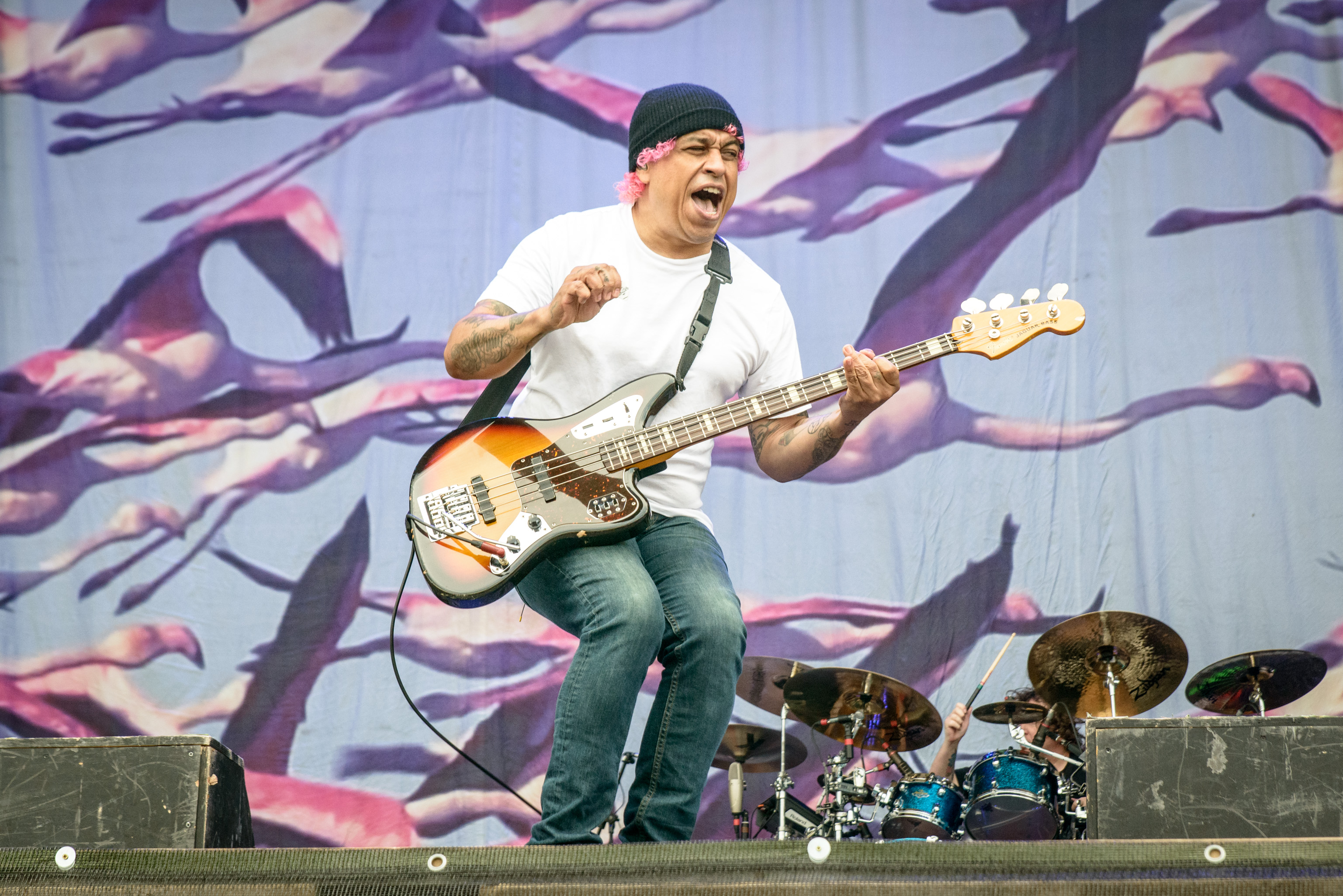 Deftones @ Rock im Park 2016